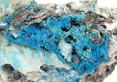 Papagoite Locality: Sinclair Mine, Karas Region, Namibia Size: miniature, 5.9 x 3.3 x 2.1 cm Papagoite (CRYSTALS!) A very rich, rare specimen of microcrystallized papagoite! Charlie stated, and I agree based on what I have seen, that this small mine might be yielding the finest actual crystals of this species, which is usually seen as mere adjoined microcrystalline crusts from Arizona or as inclusions with in quartz from the Transvaal area. He thought very highly of this specimen, as do I. It can and should probably be broken into two specimens of equal value as a rarity.